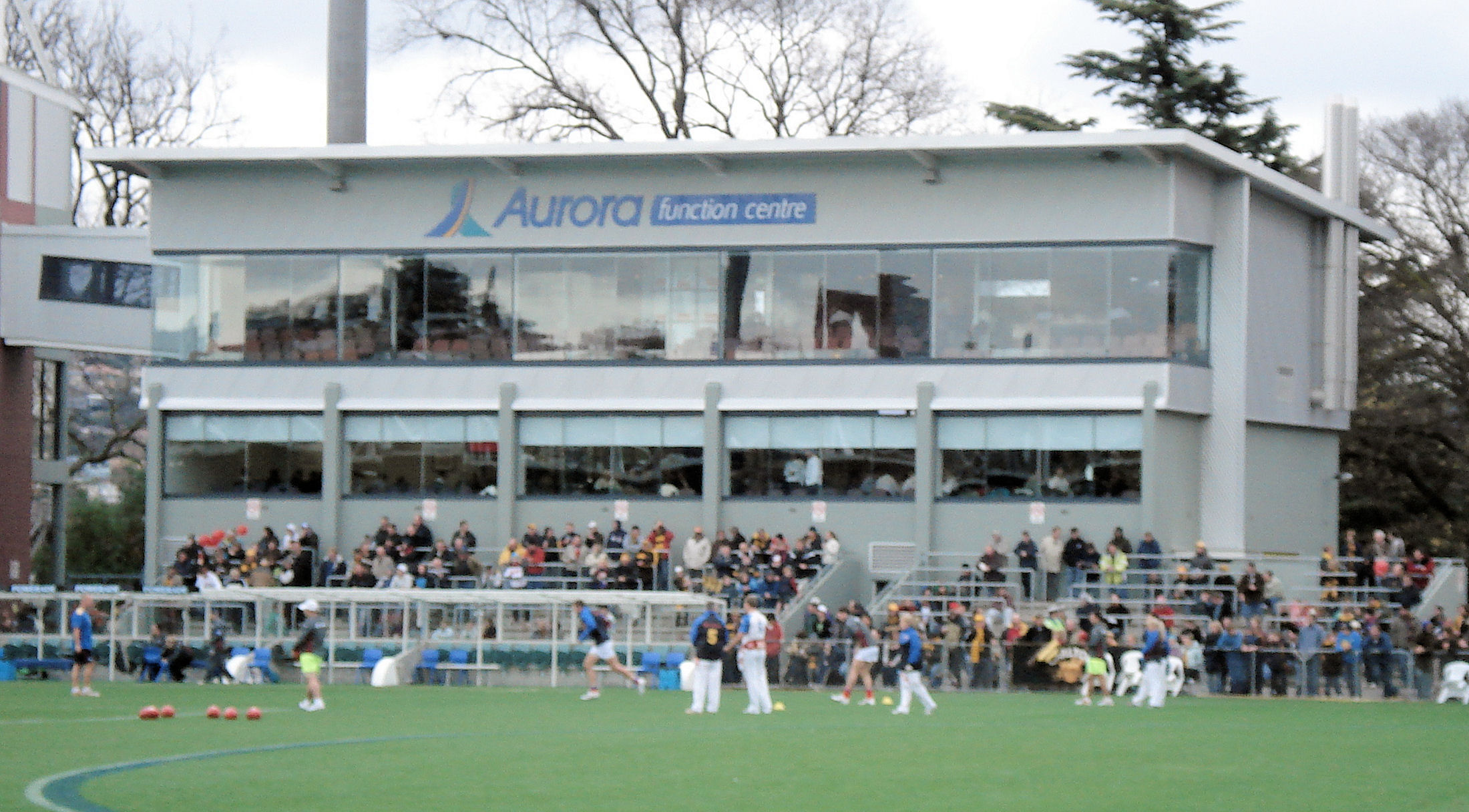 Aurora Function Centre at Aurora Stadium